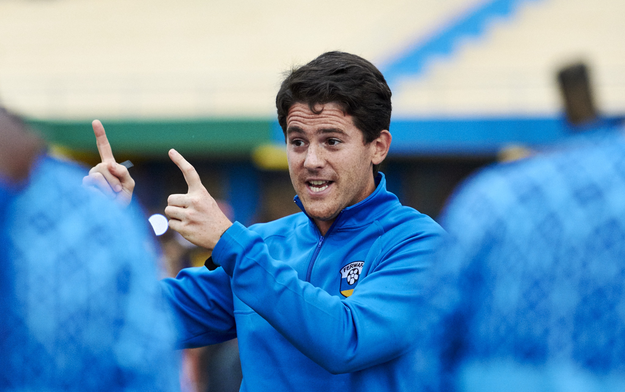 Coach McKinstry speaks with players during training [Rwanda Training Camp before AFCON2017 Qualifier Vs Ghana on 5 Sep 2015 in Kigali, Rwanda. Photo © Darren McKinstry 2015]